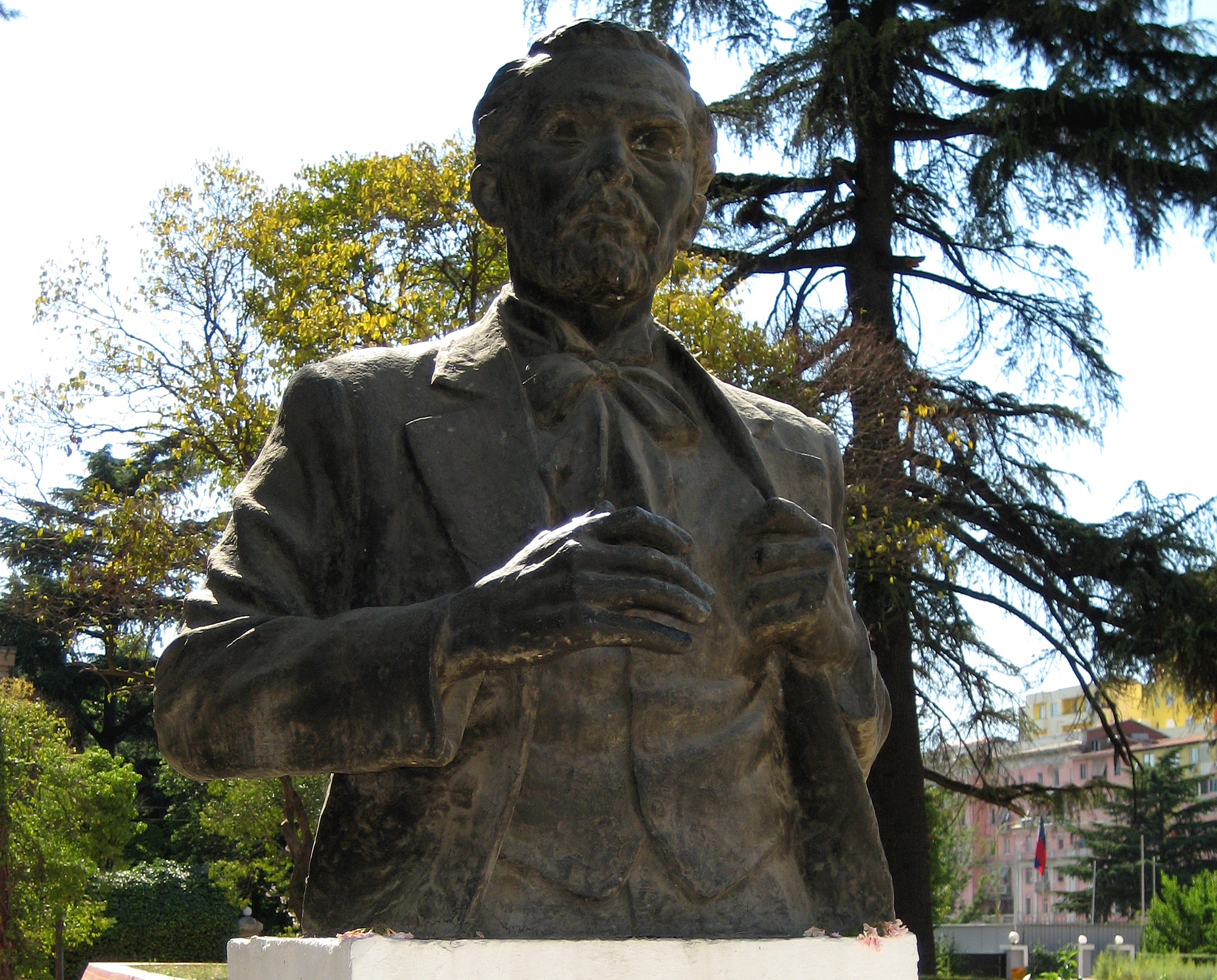 Memorial of Naim Frashëri in Tirana